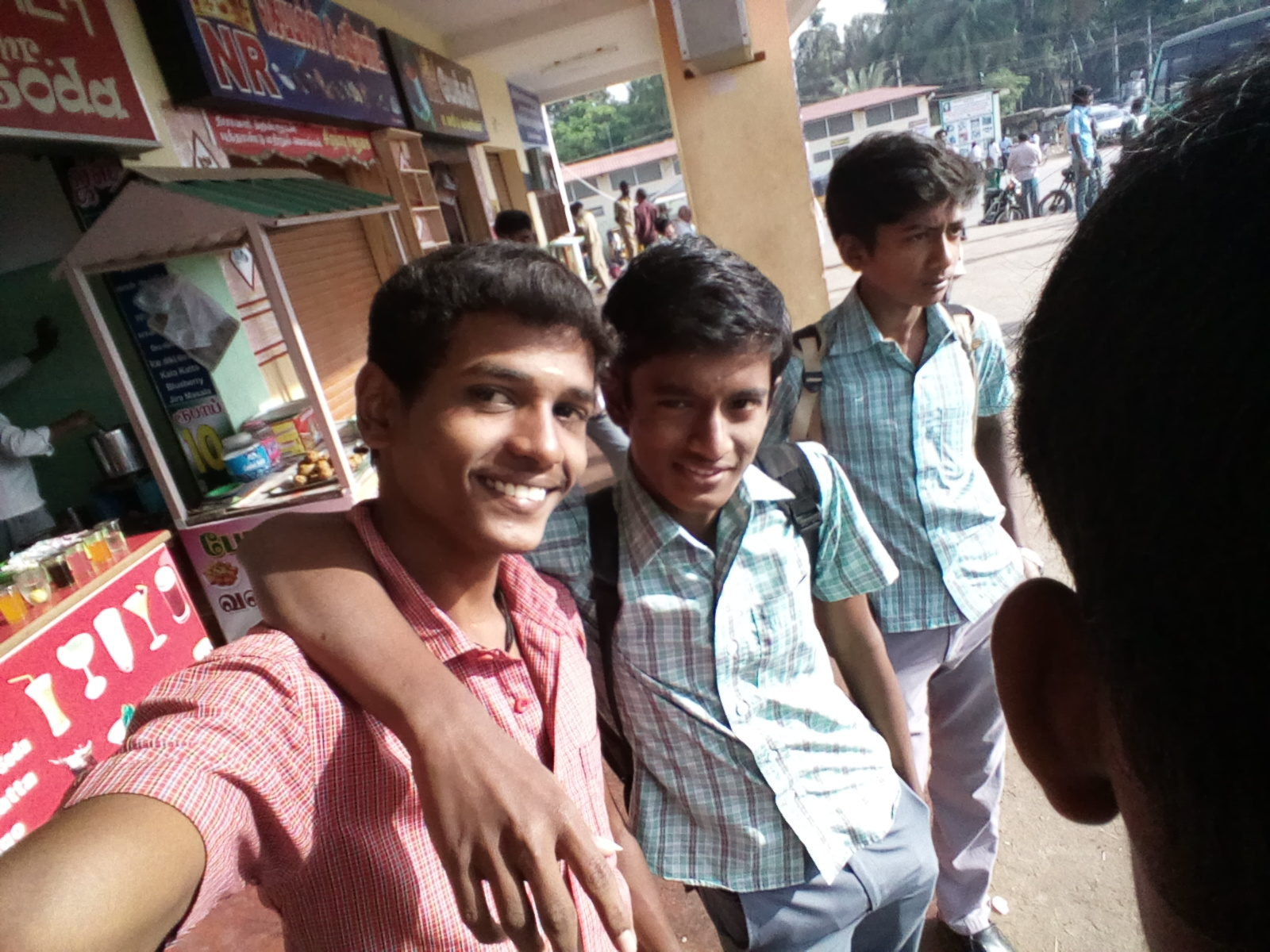 is the best friendship is best relactionship